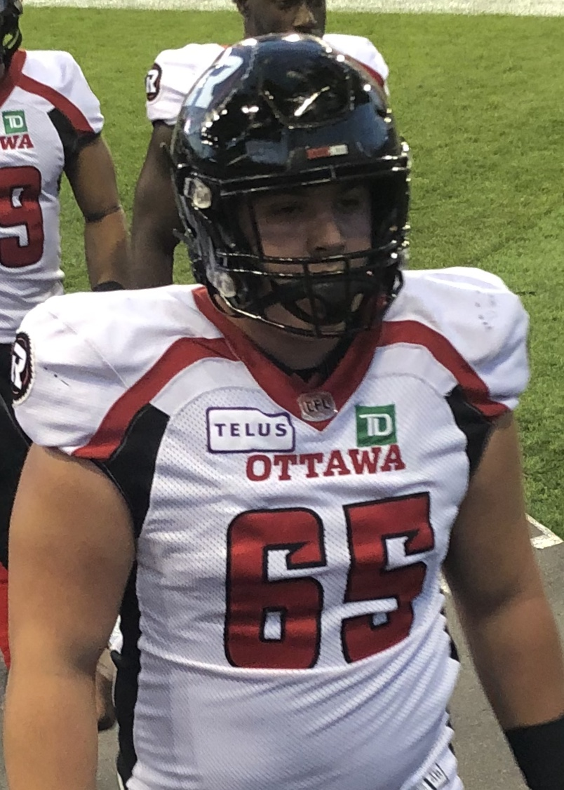 Mark Korte, offensive lineman for the Ottawa Redblacks.